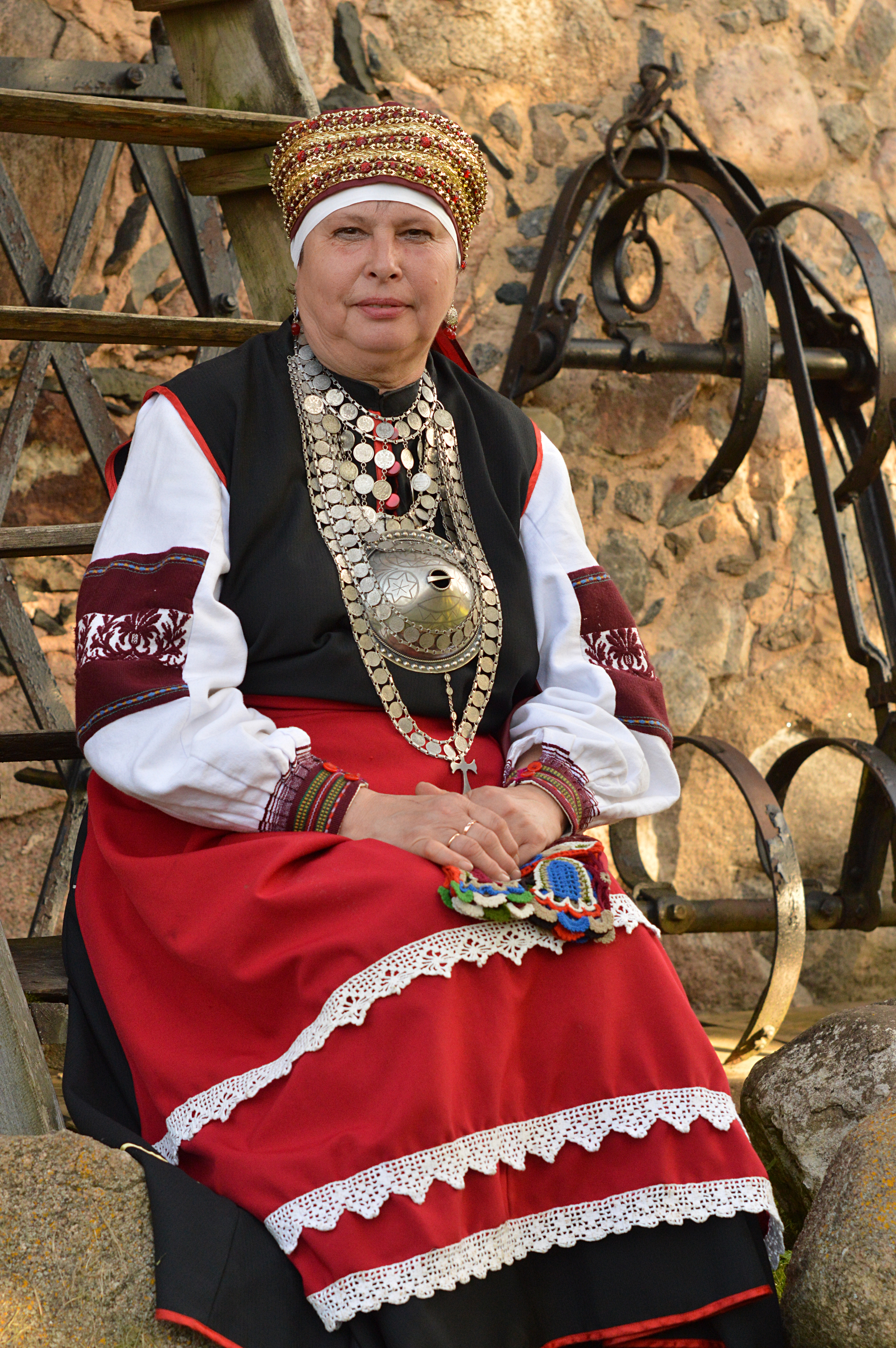 Seto woman, Ellen Linnasmäe, from Estonia in a national costume. Radaja Seto Festival, Radaja (Sigovo) village, Russia. Sorrõseto folk dance group.